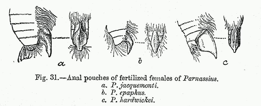 Apollos